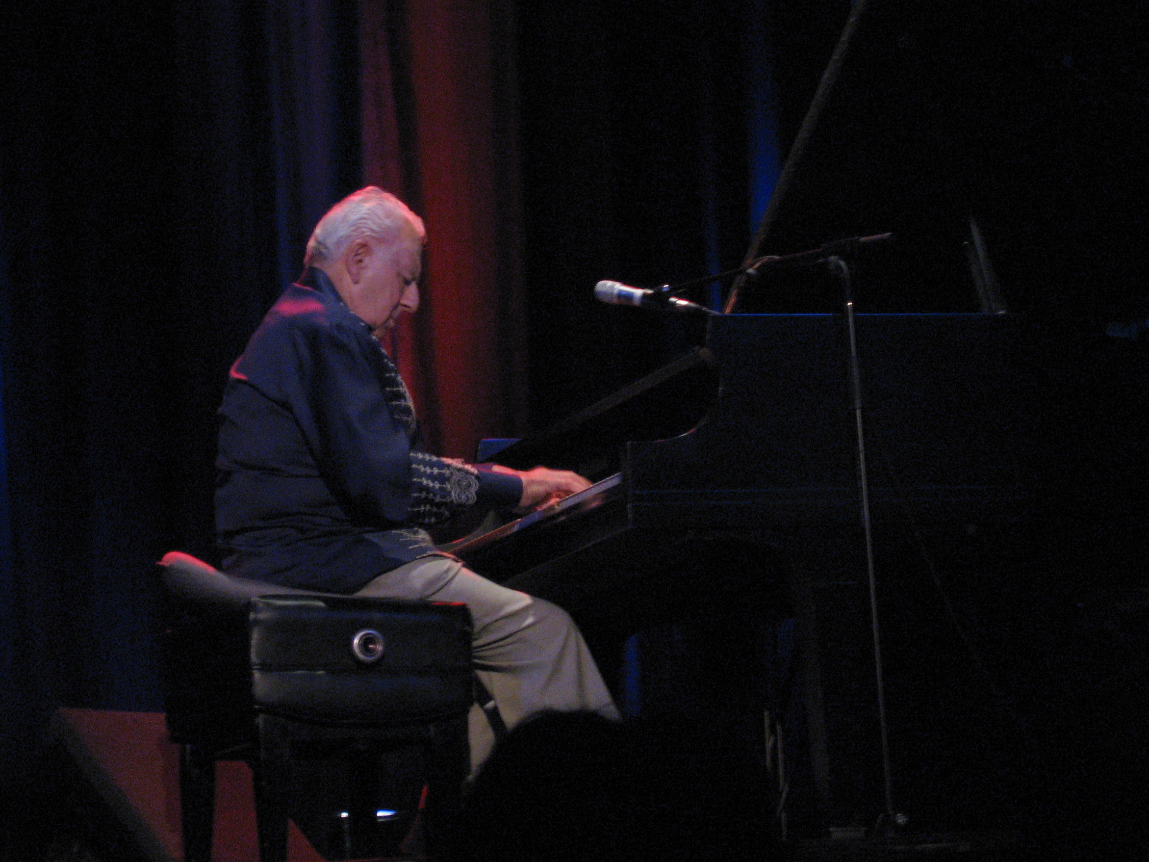 1915 born piano player Irving Fields at a concert with canadian musician Socalled at the Théatre National in Montreal, Canada